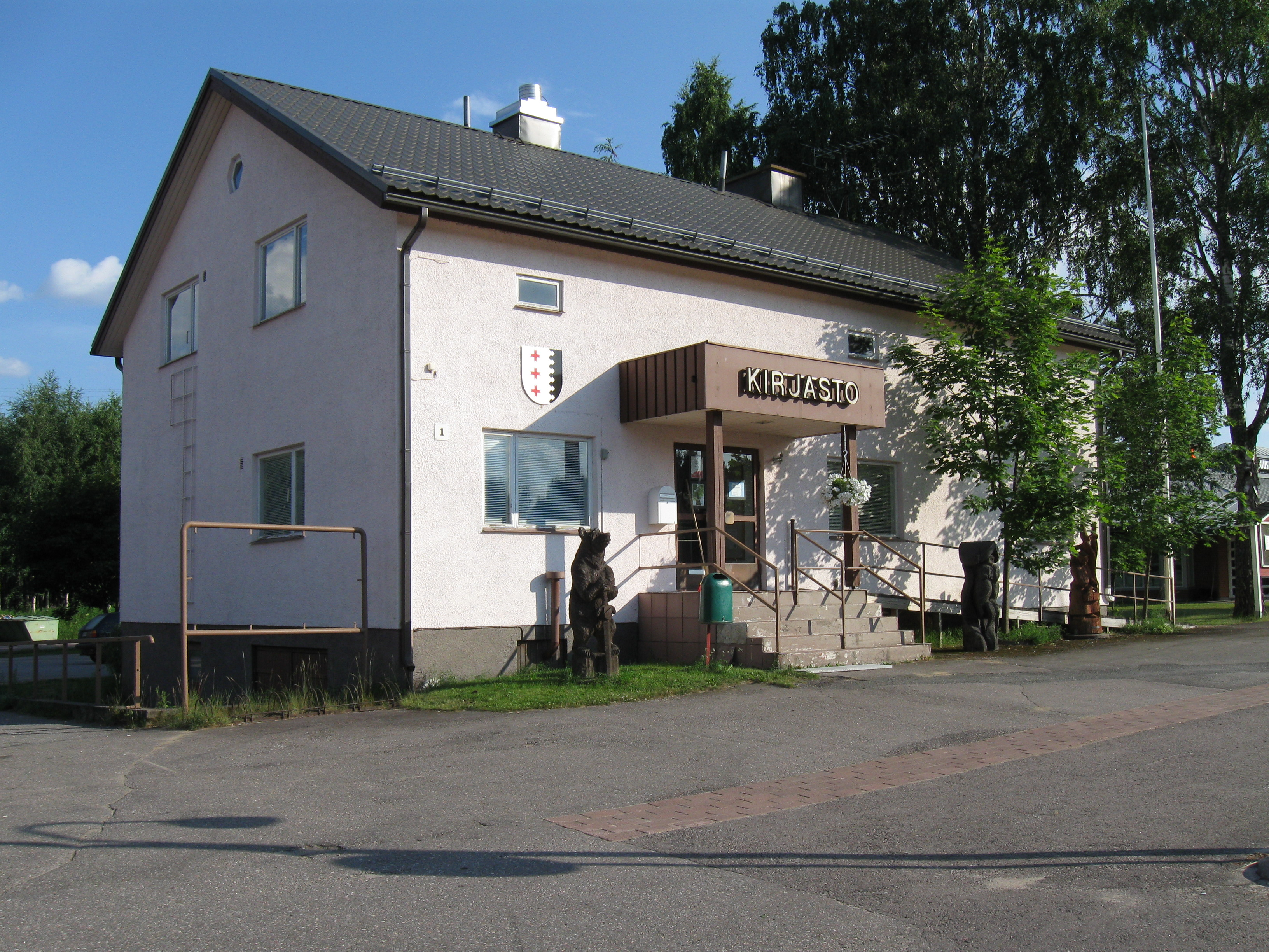 The library building of Niukkala at Uukuniemi, Parikkala, Finland.